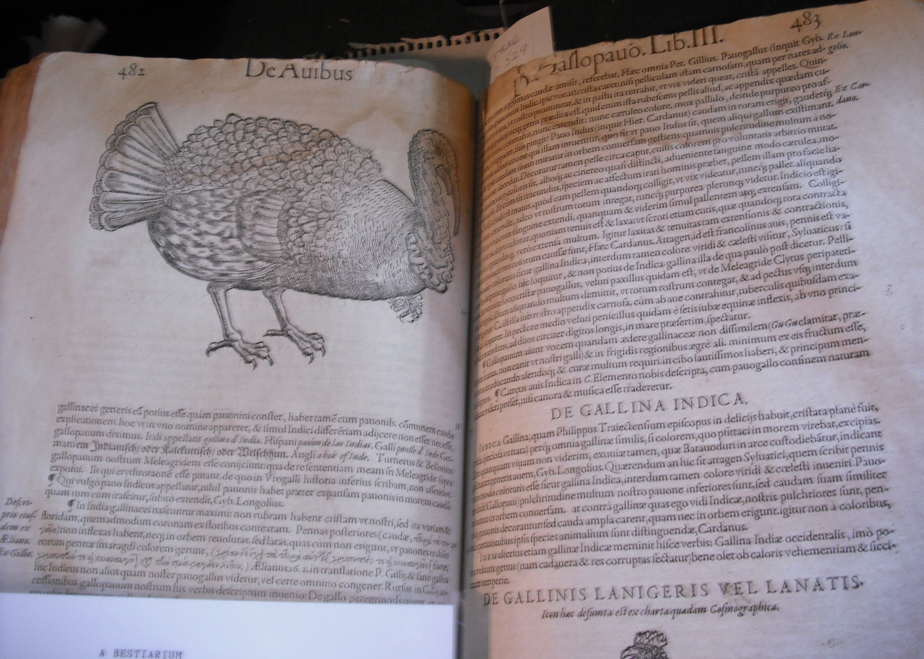 Francis Trigge Library -Bestiarium, Conrad Gesner of Zurich, 1587